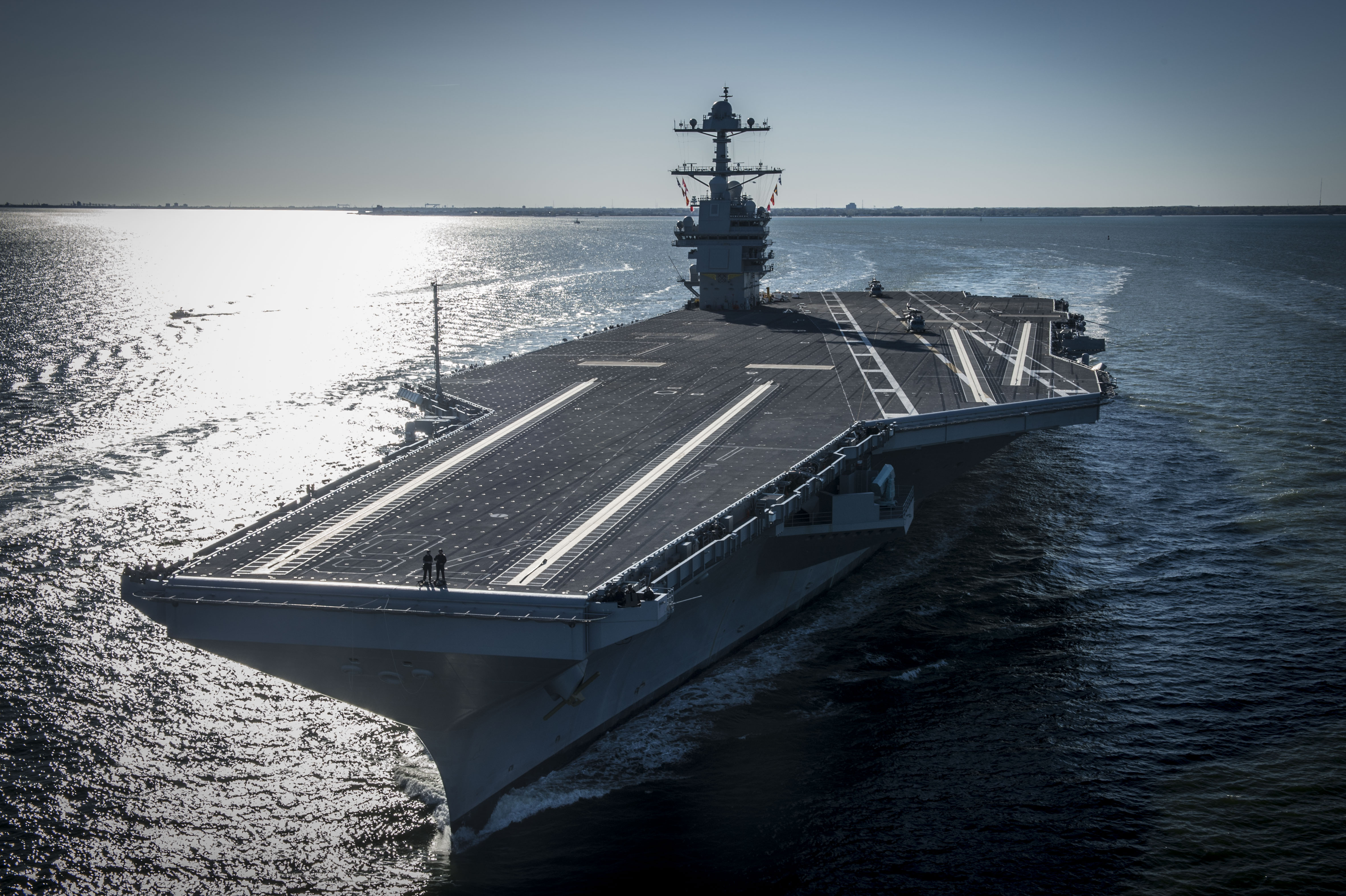 The U.S. Navy aircraft carrier USS Gerald R. Ford (CVN-78) underway on its own power for the first time. The first-of-class ship -- the first new U.S. aircraft carrier design in 40 years -- spent several days conducting builder's sea trials, a comprehensive test of many of the ship's key systems and technologies.